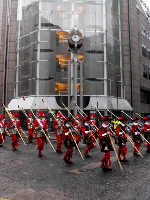 Musketeers & Pikemen EC2 9:58am Having left the Artillery Field and marched down City Road, Musketeers and Pikemen head westwards along Chiswell Street, here crossing Finsbury Street, to form the guard to the Lord Mayor for his parade an hour later.